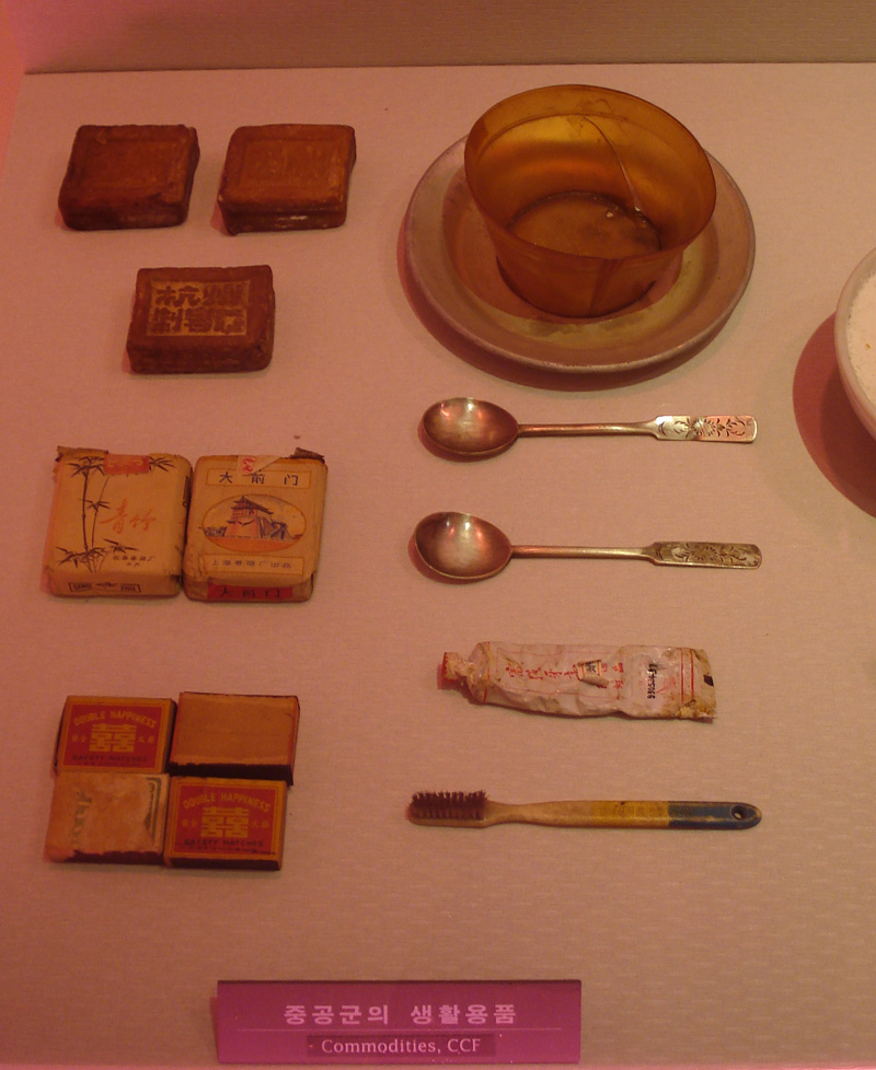 The commodition of People's Volunteer Army